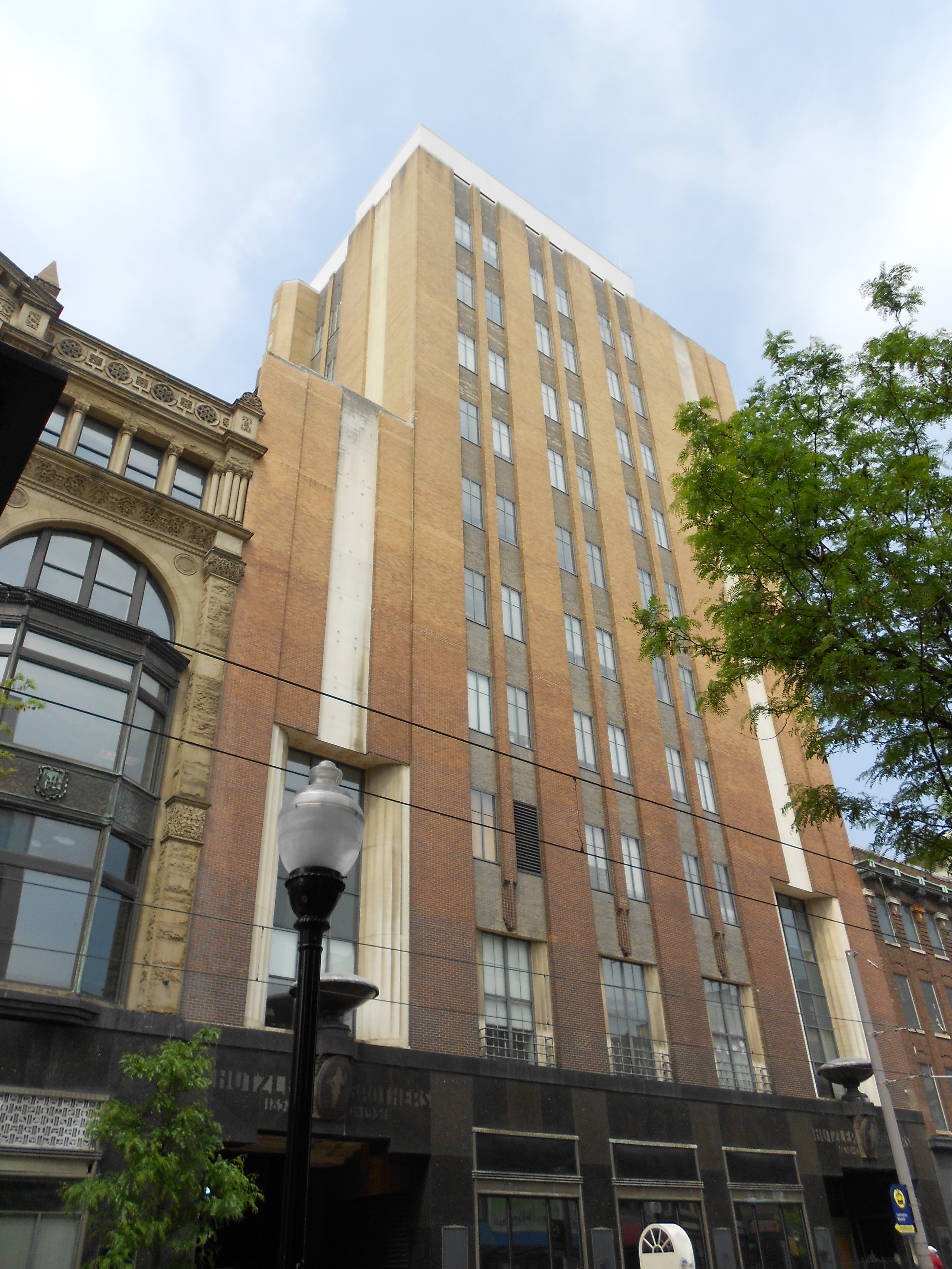 Hutzler Brothers Tower building on Howard Street in Baltimore